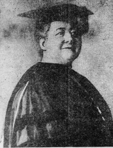 Nellie V. Mark, in a 1919 publication.